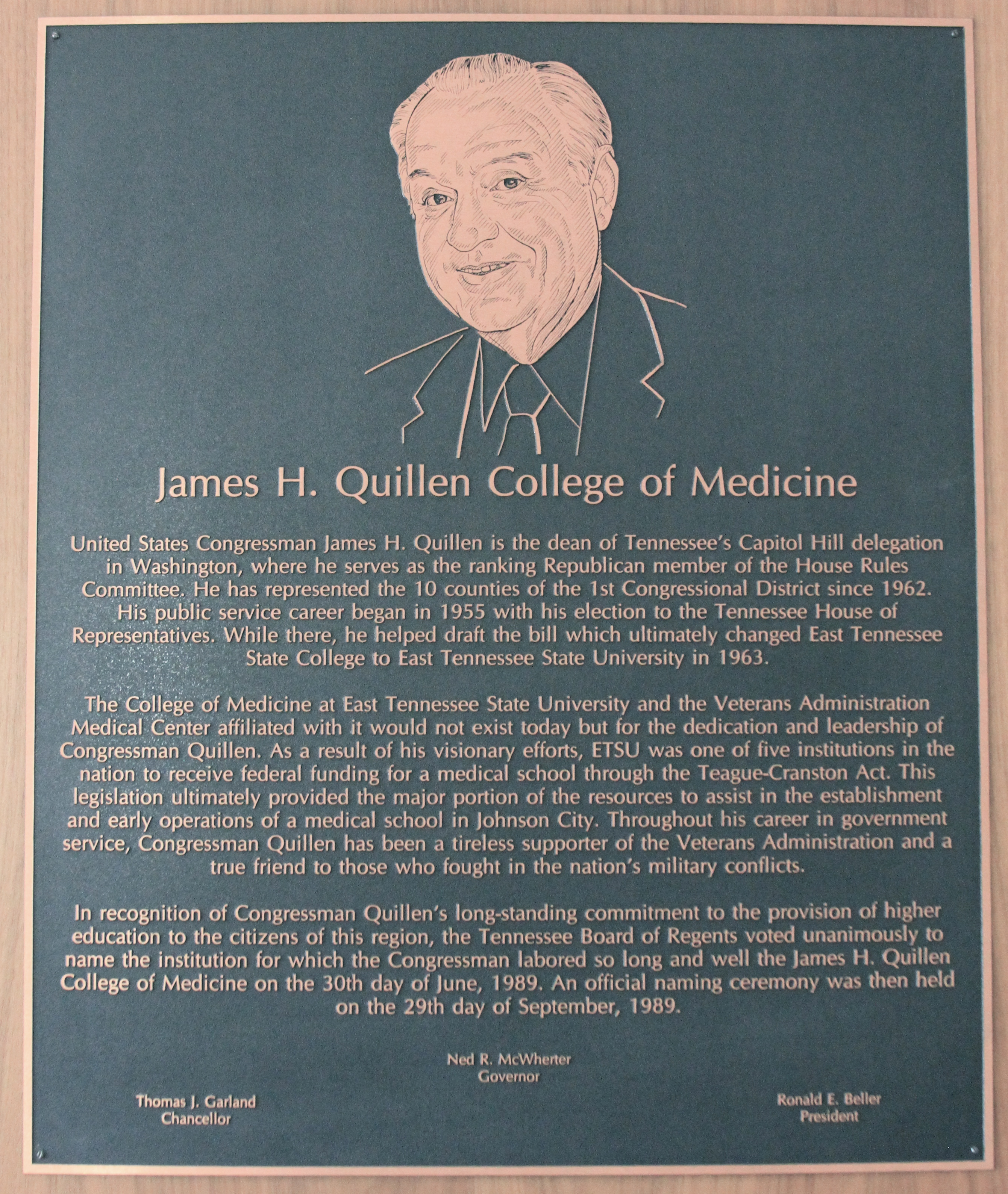 The plaque honoring congressman Jimmy Quillen is found in Stanton-Gerber Hall at the James H. Quillen College of Medicine.